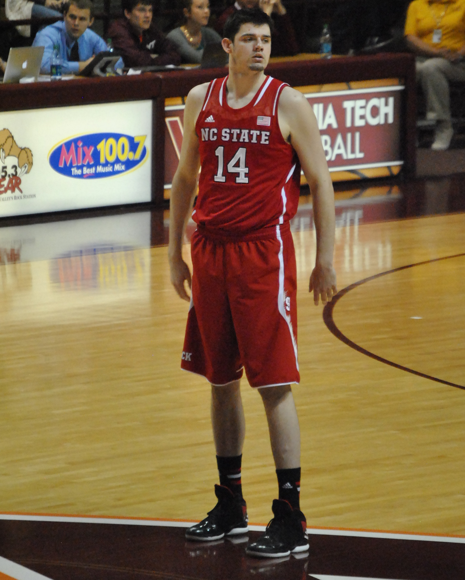 Jordan Vandenberg ready for the Hokies in Blacksburg